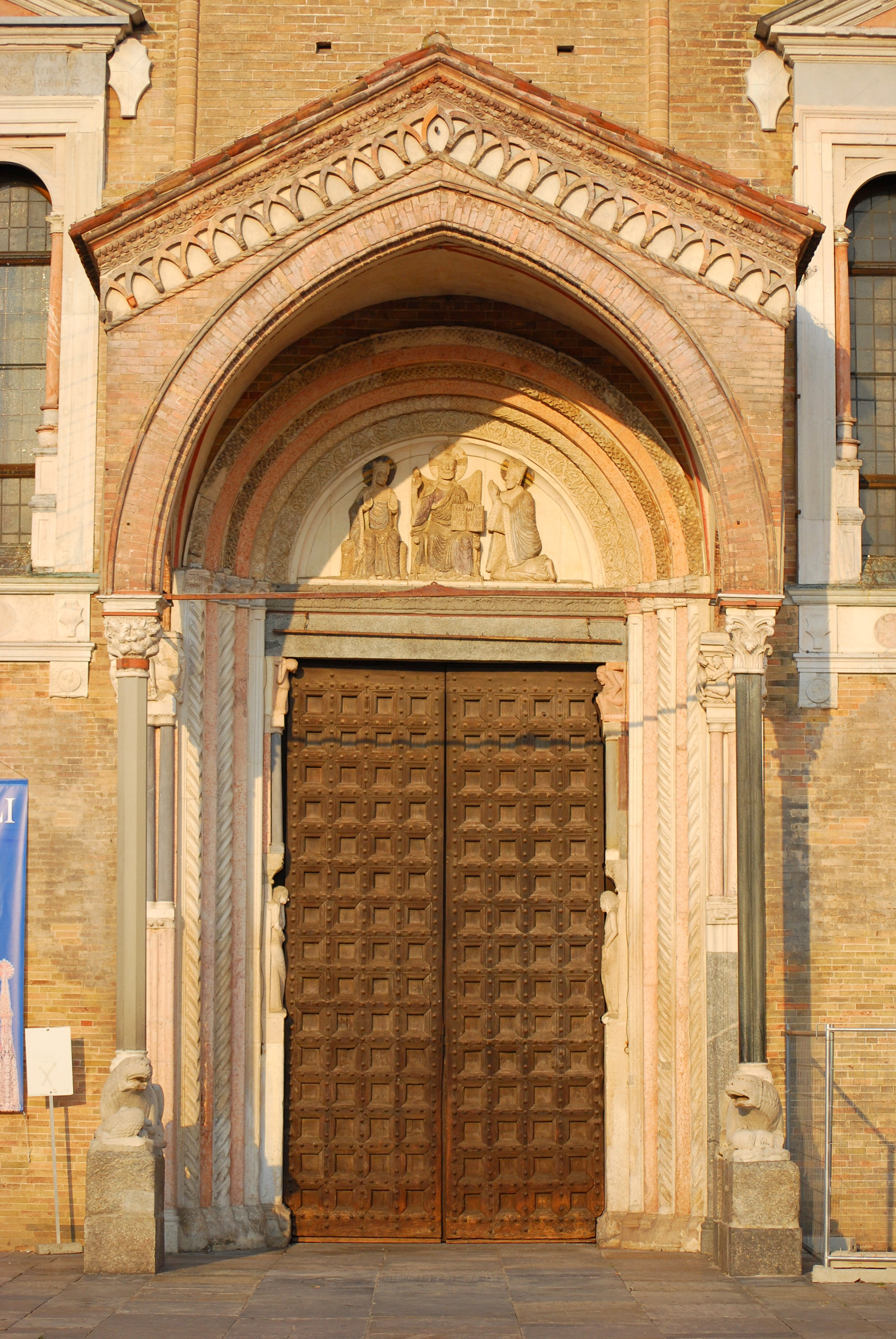 Prothyrum (Basilica Cathedral of Lodi, Italy)